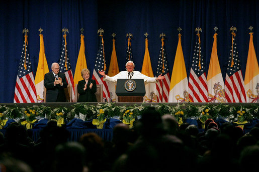 Caption: Pope Benedict XVI, joined on stage by Vice President Dick Cheney and Mrs. Lynne Cheney, gestures to the faithful Sunday, April 20, 2008 at a farewell ceremony for the Pope at John F. Kennedy International Airport in New York.